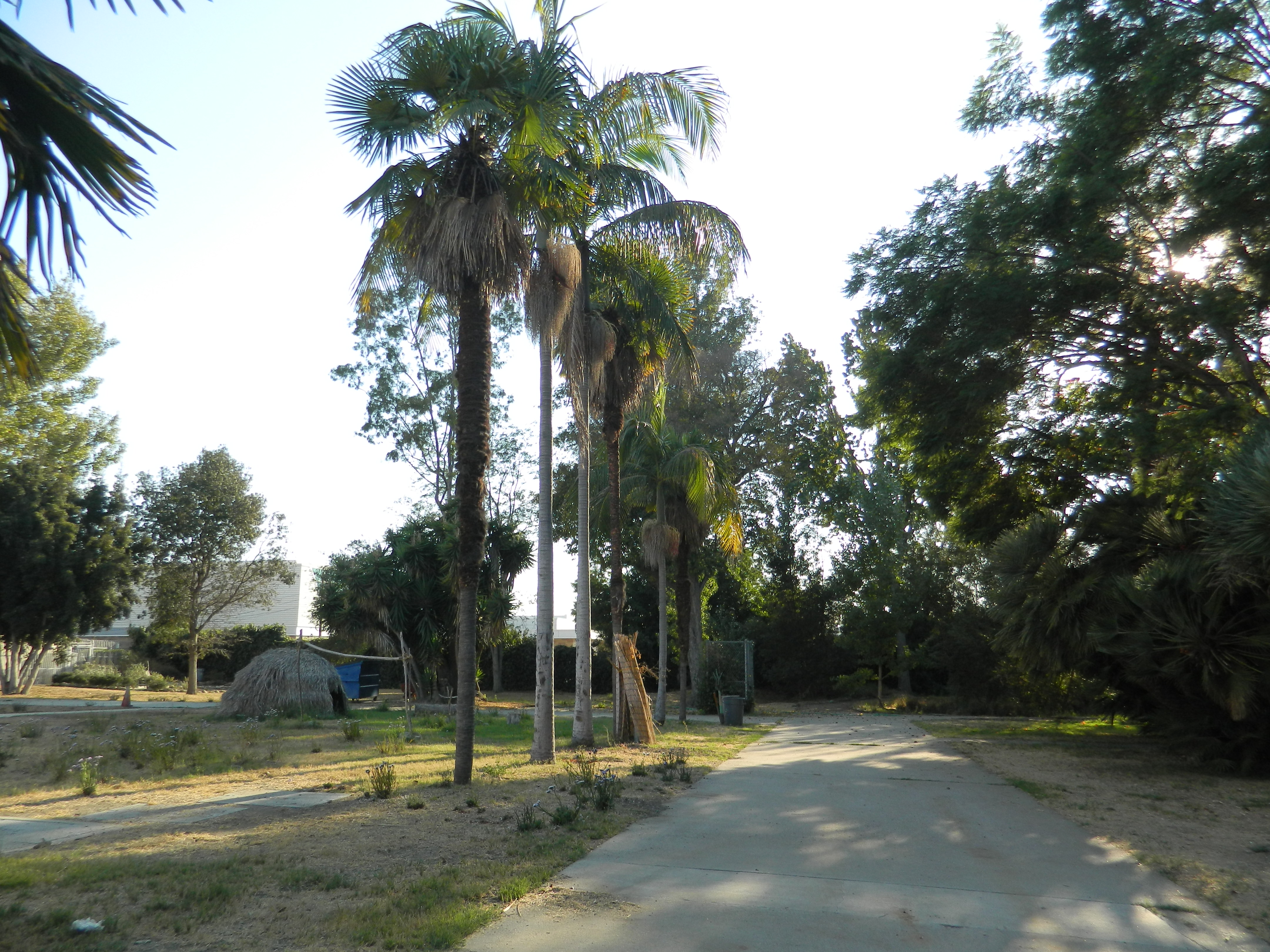 Historic landmark at University High School, Los Angeles, California, United States; featuring Chumash-style 'Ap hut